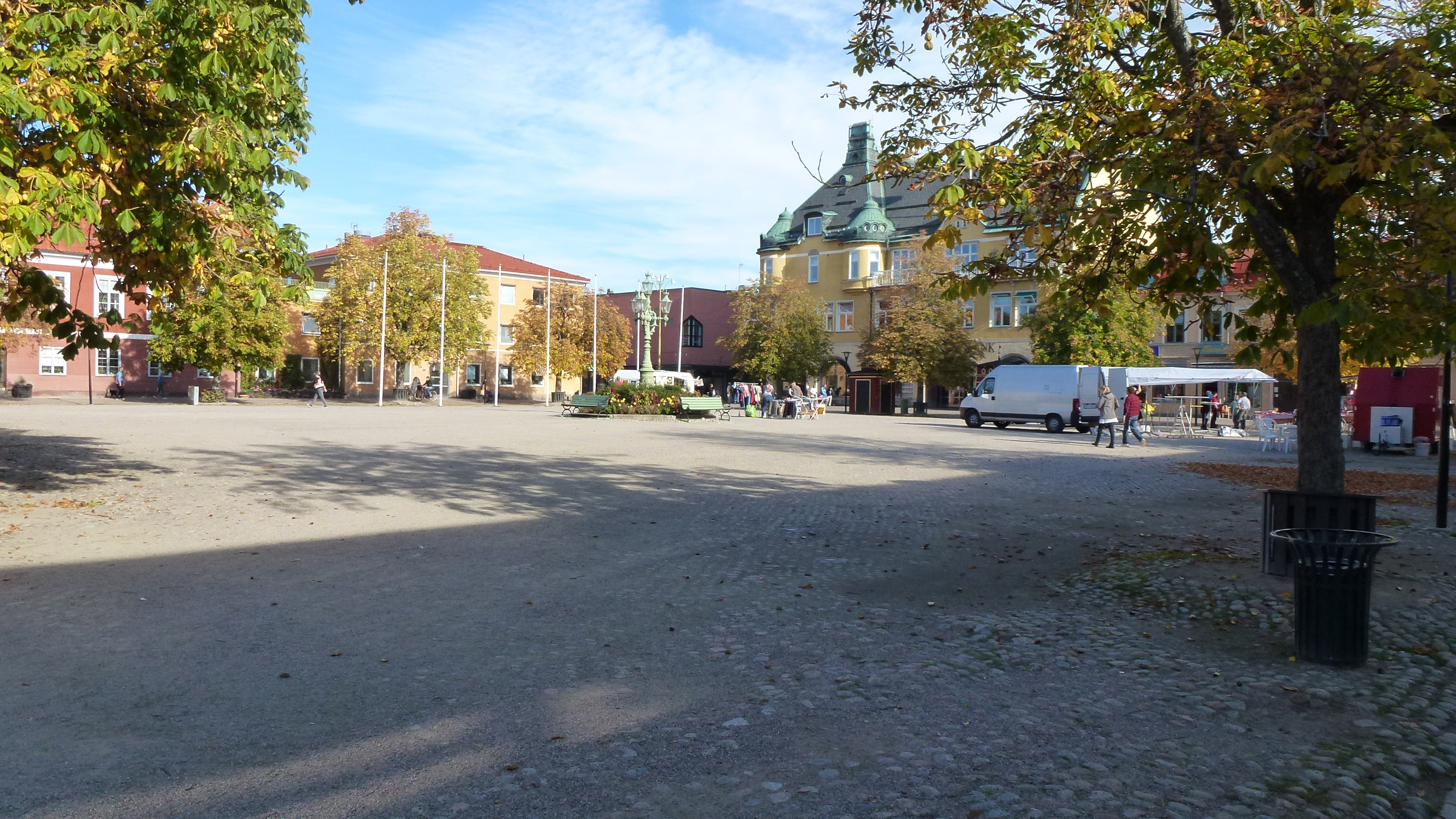 Sala downtown